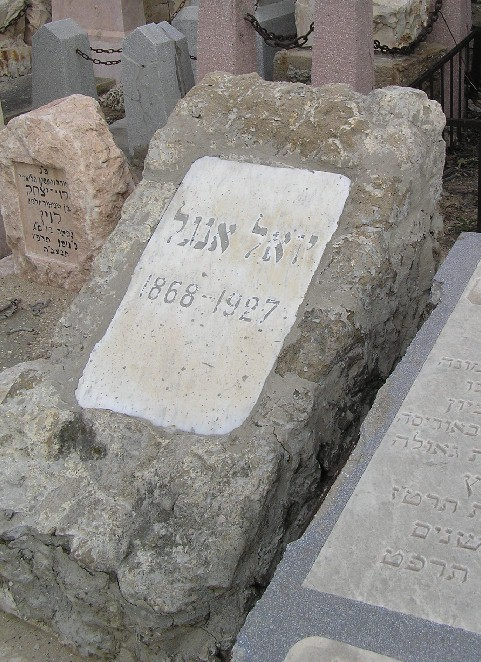 Tomb of Yoel Engel in Trumpeldor cemetery in Tel Aviv photographed by Eman, February 2006